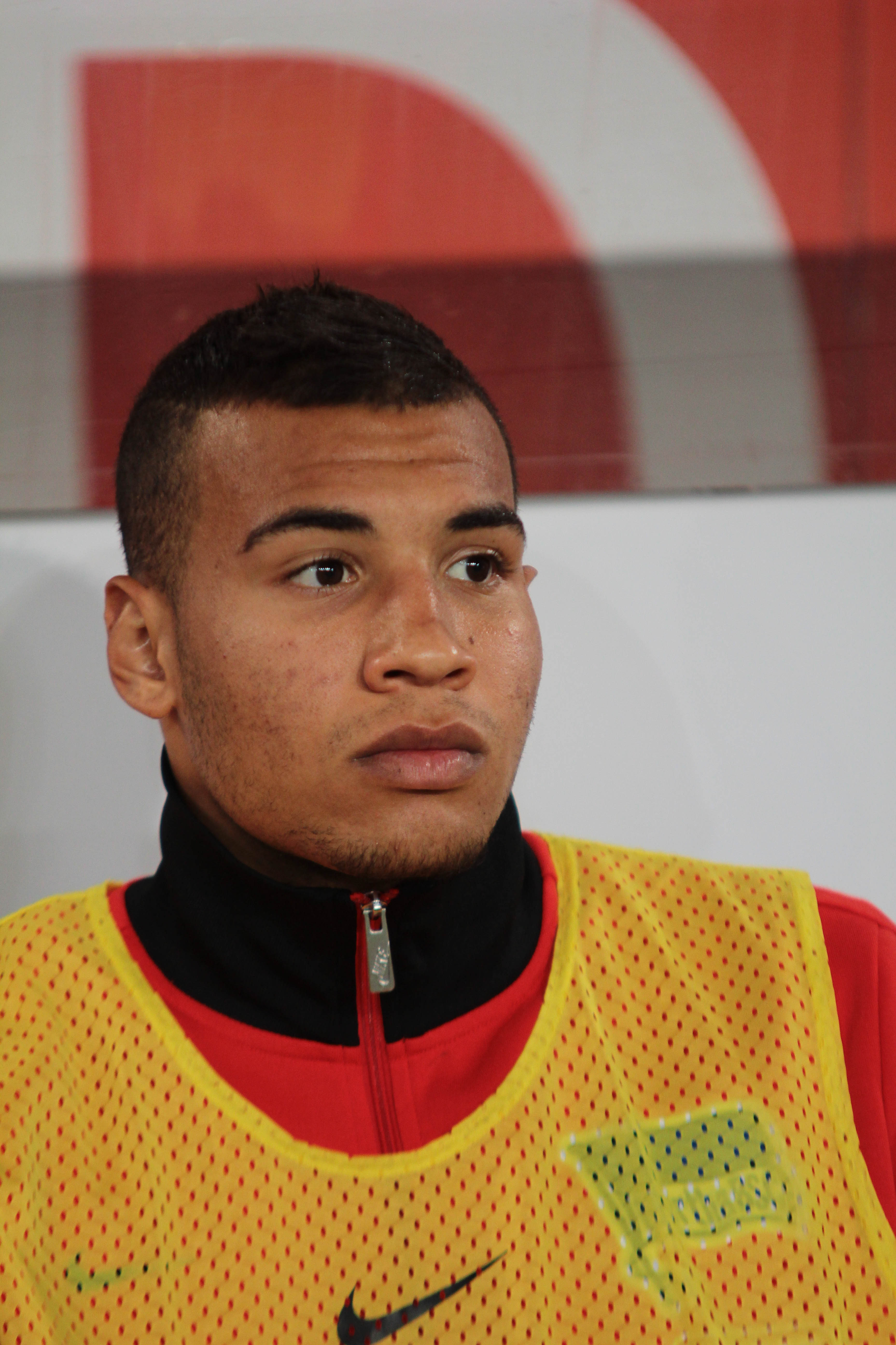 German-American footballer John Anthony Brooks, Hertha BSC